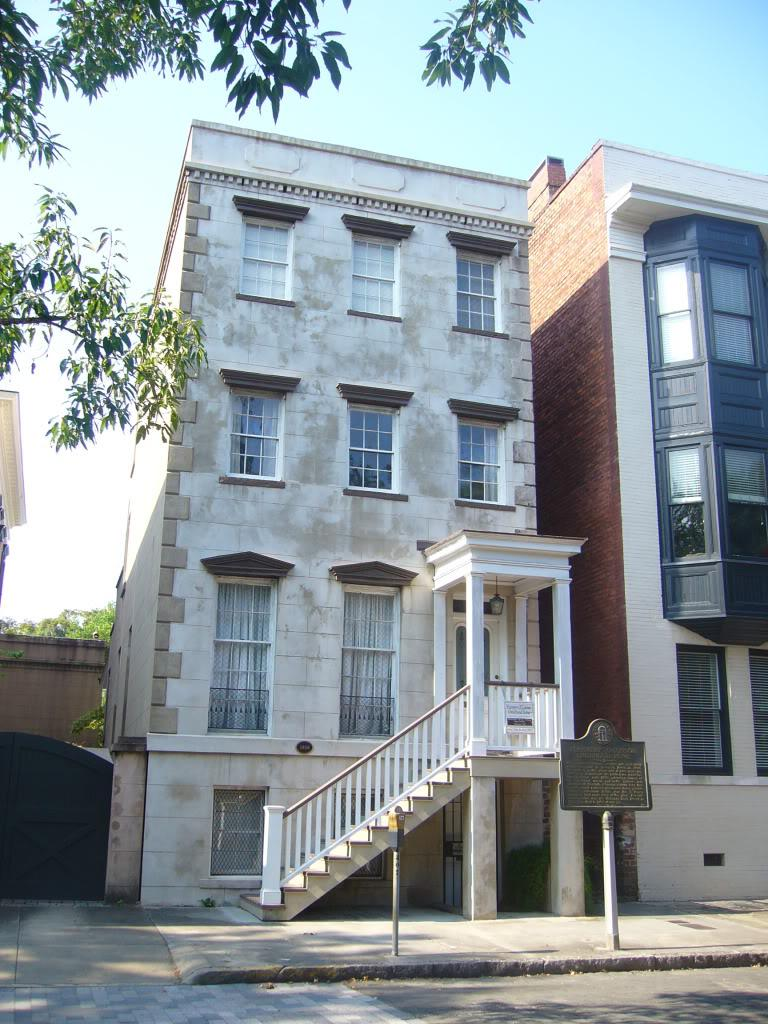 Childhood home of American author Flannery O'Connor. It is located at 207 East Charlton Street in Savannah, Georgia.